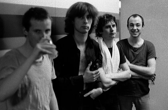 Left to right: Andy Partridge, Colin Moulding, Terry Chambers, Barry Andrews of the English New Wave Band XTC At The Edge, Toronto, 1978